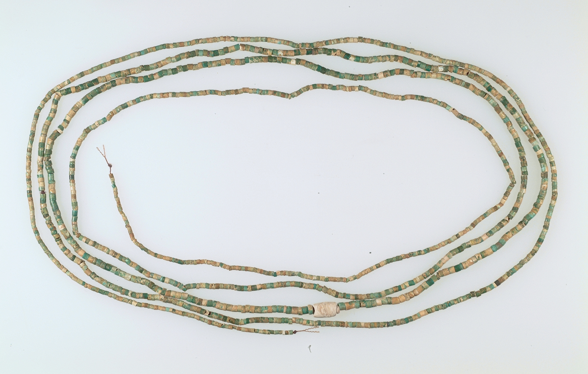 Belt